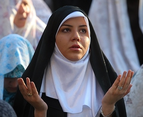 Salat Eid al-Fitr, Tehran - 31 August 2011. main album, a prayer after Salat raises both of her hands.